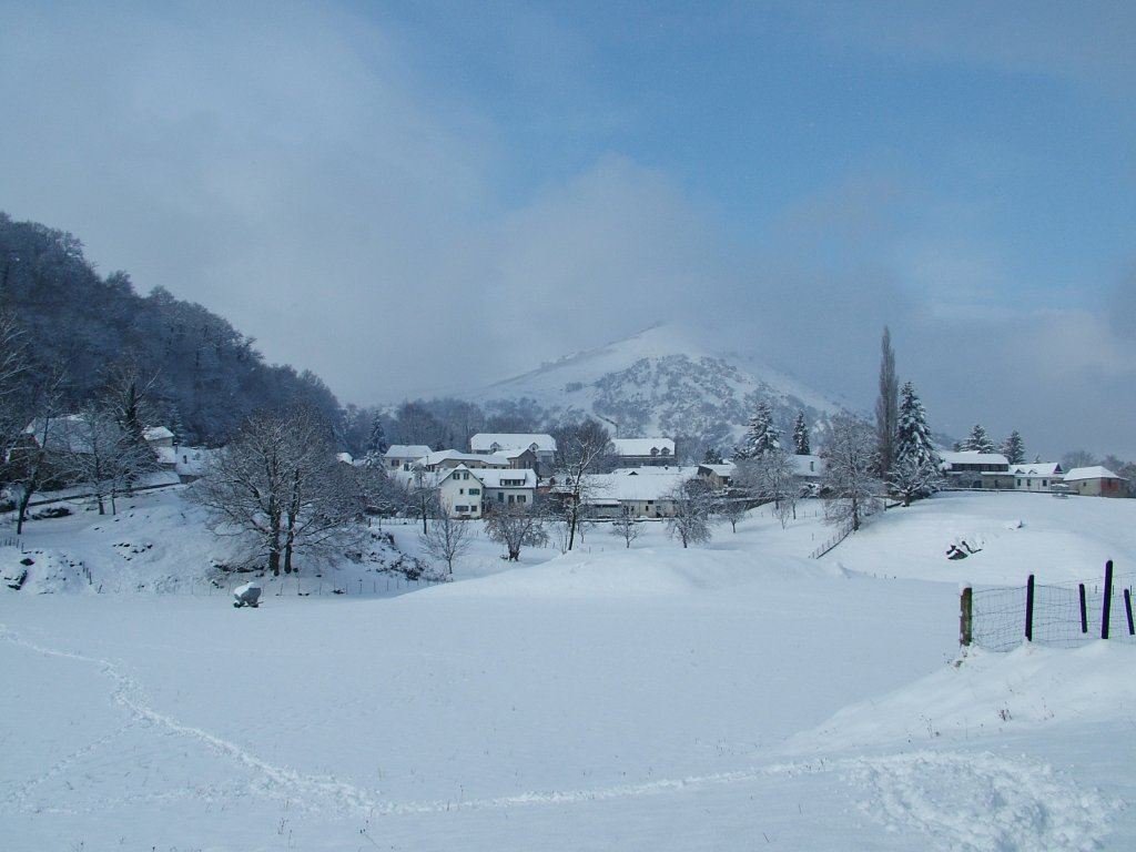 Depicted place: Aspin-en-Lavedan